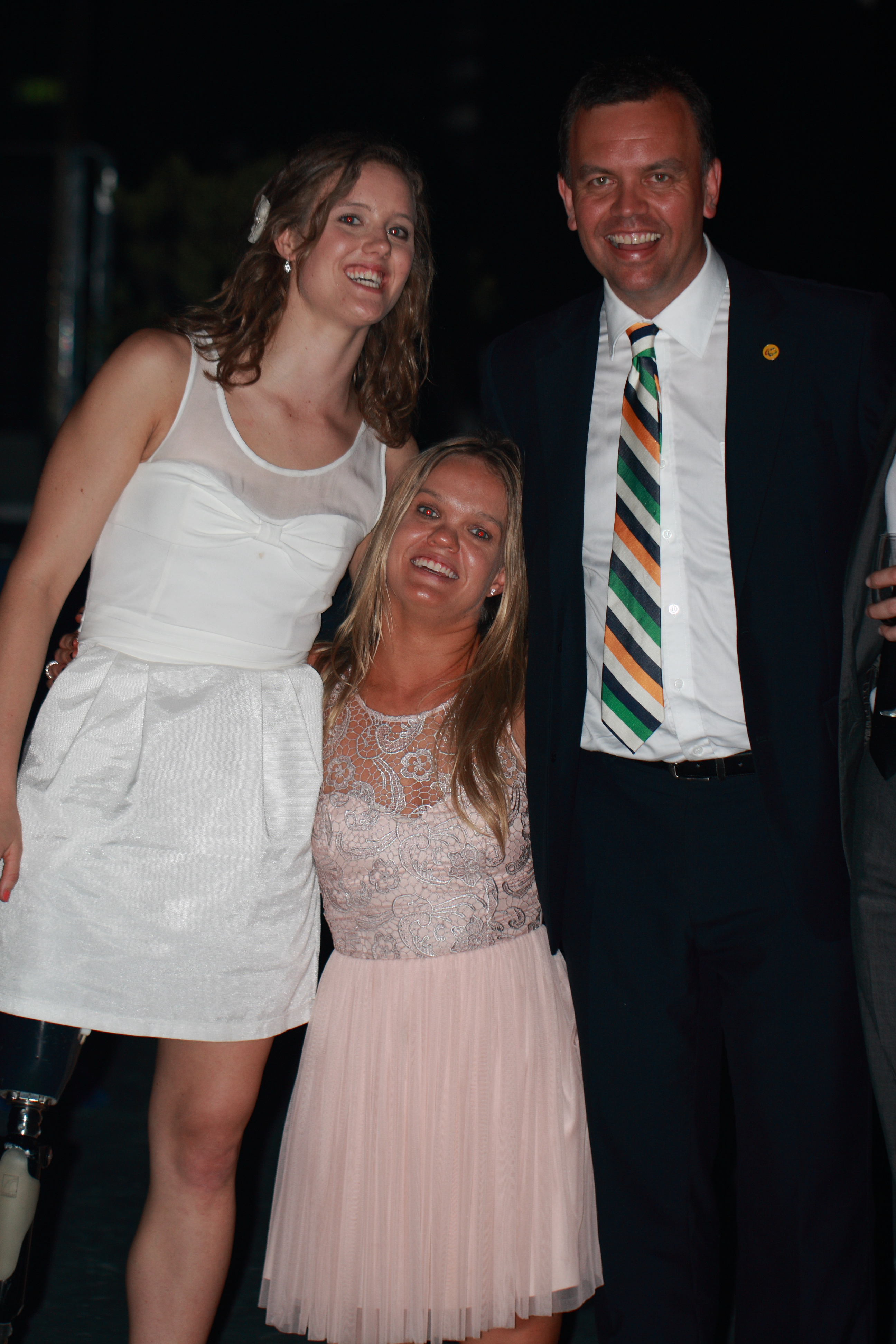 Australian Paralympian of the Year 2012 ceremony at the Hordern Pavilion, Sydney, Australia.